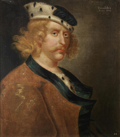 Donald III of Scotland (1033-1099)